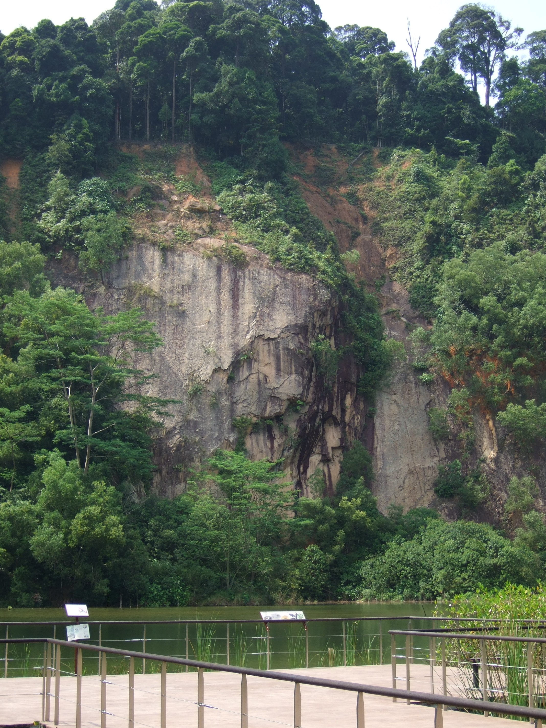 Singapore Quarry at Dairy Farm Nature Park